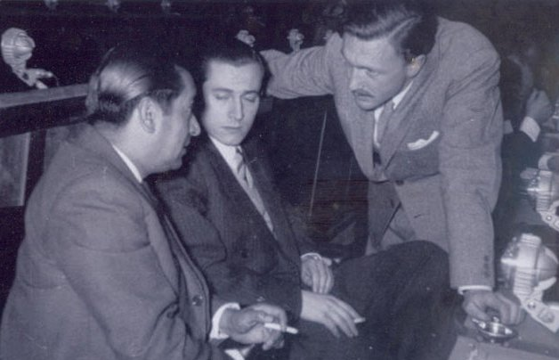 Convención Constituyente de 1957. Izq a derecha: Los convencionales Ricardo Ovando (Partido Laborista) y Juan Carlos Deghi (Partido de los Trabajadores), y Guillermo Estévez Boero (asesor Partido de los Trabajadores).